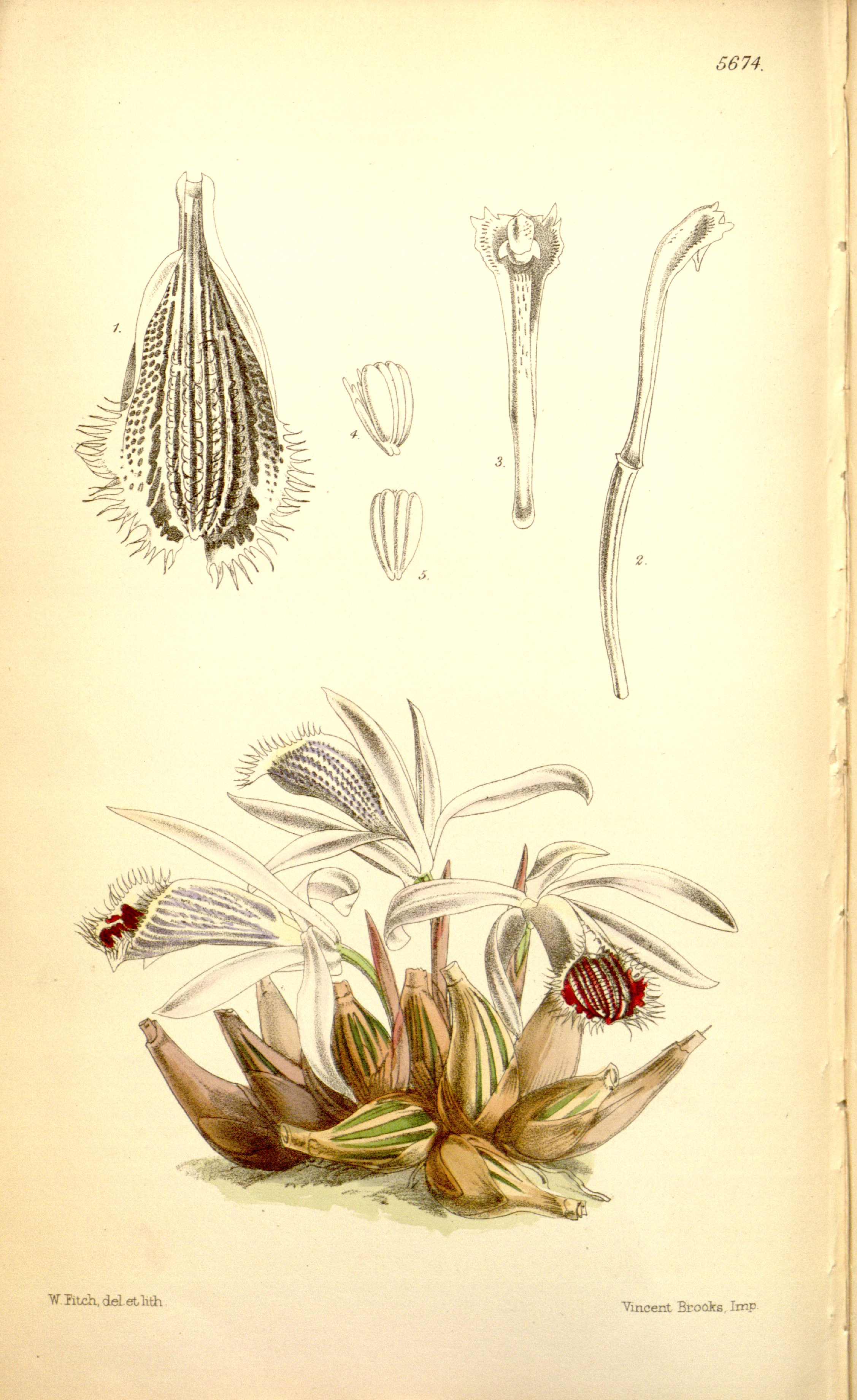 Illustration of Pleione humilis (as syn. Coelogyne humilis)